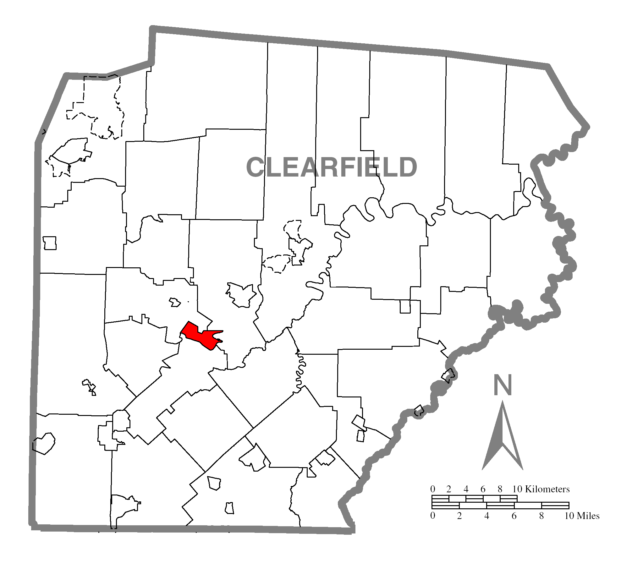 A map of Clearfield County showing Lumber City, Pennsylvania (alternate) highlighted on the map.